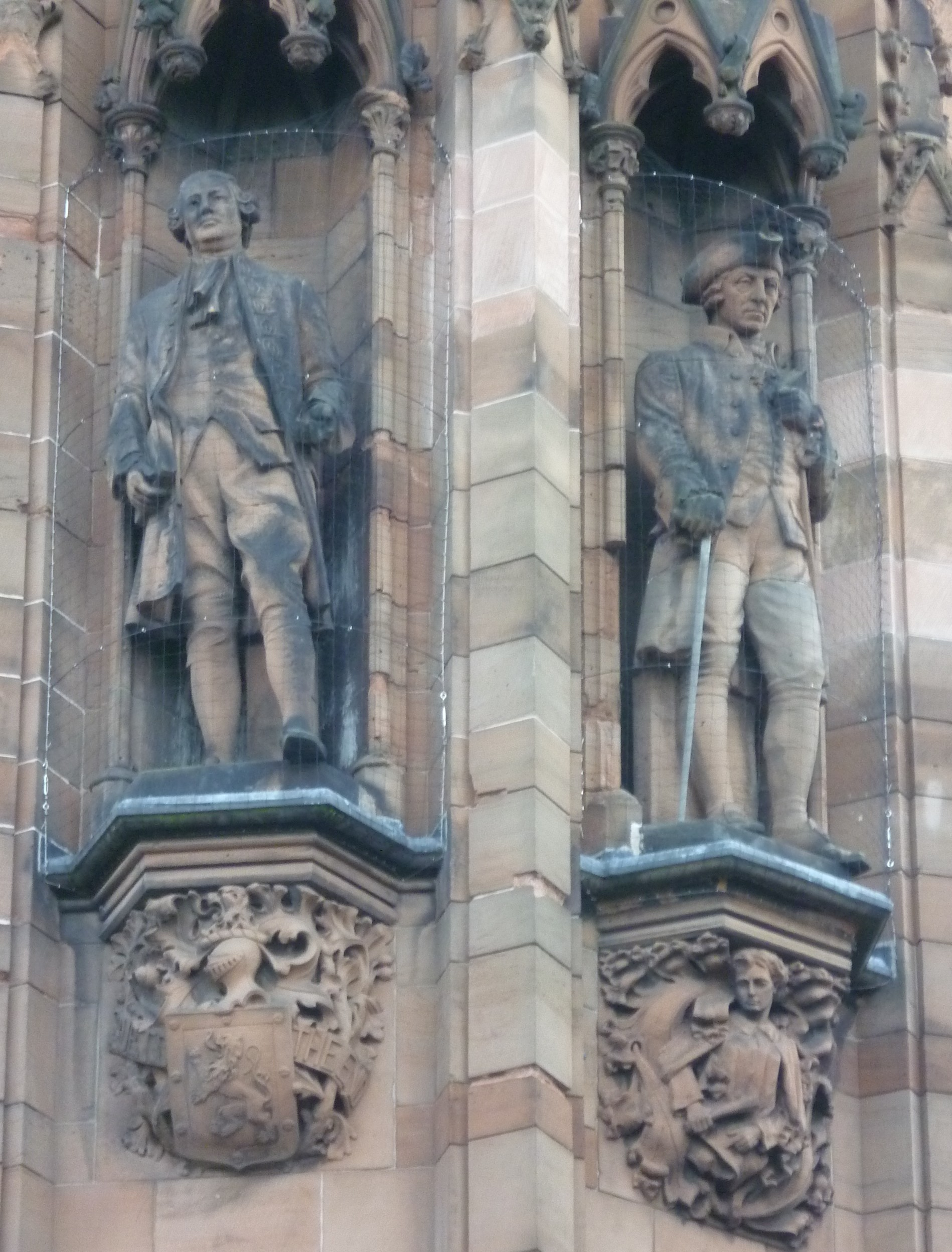 Two of the most notable figures of the Scottish Enlightenment in the late 18th century: the moral philosopher David Hume from Berwickshire and the political economist Adam Smith from Fife, both to be found on the north-west tower of the Scottish National Portrait Gallery. The statues are the work of David Watson Stevenson (1842–1904).